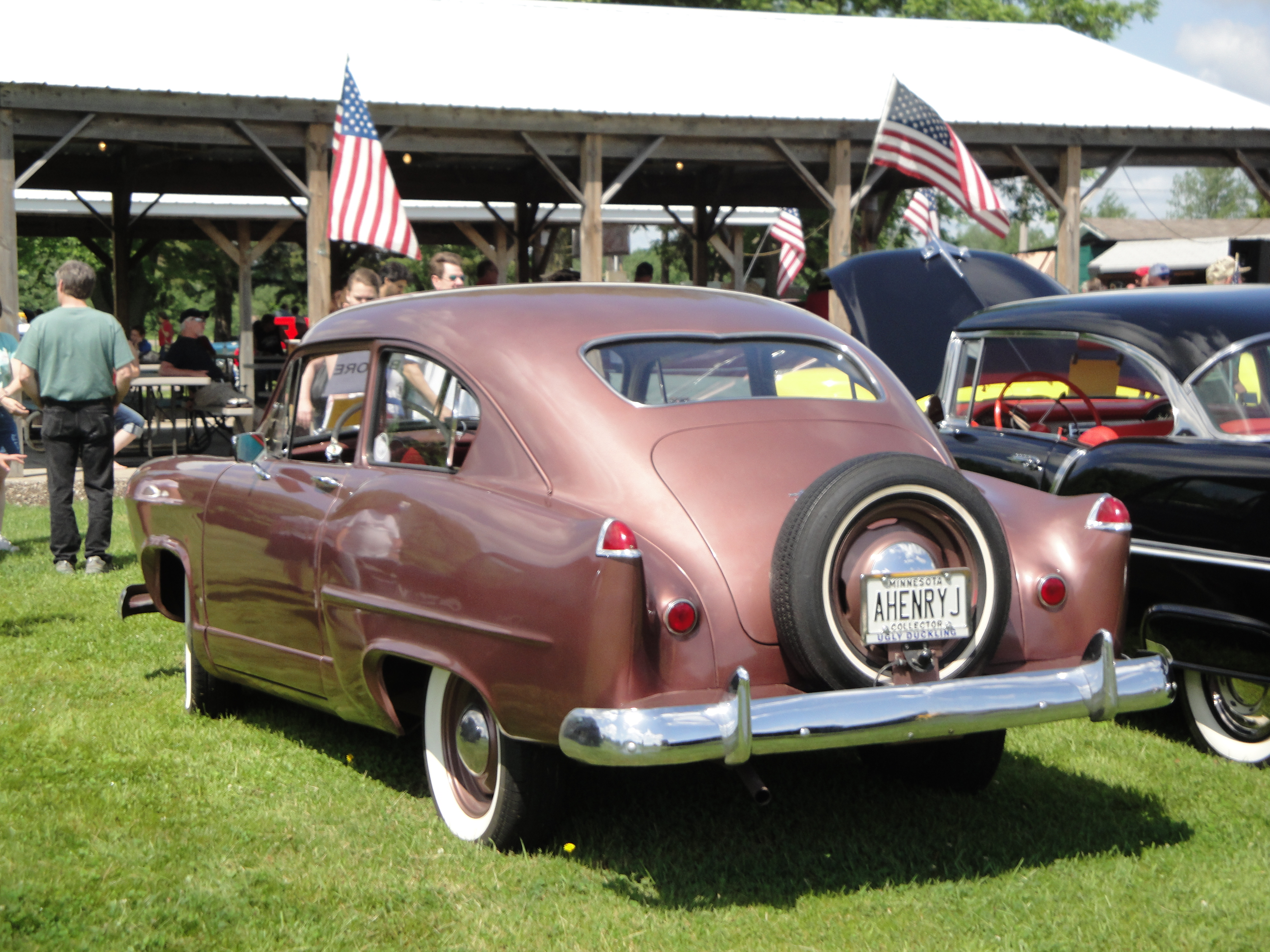 2012 Memorial Day Car Show Hosted by the North Star Chapter of the Studebaker Drivers Club